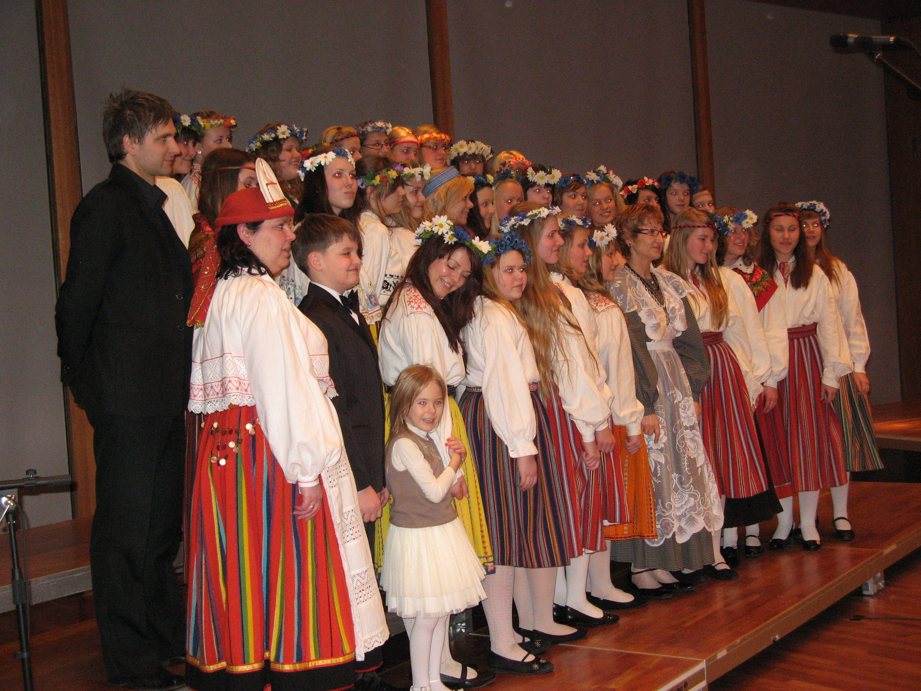 Embassy in Berlin celebrated the anniversary with a reception and cultural program. The events were opened by Estonian PM Andrus Ansip and Baden-Württemberg's PM Günther H. Oettinger.